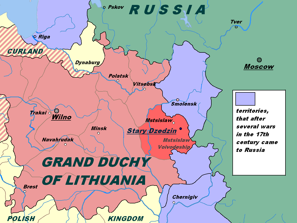 This image shows the location of the village Stary Dzedzin on the political map of the 17th century.